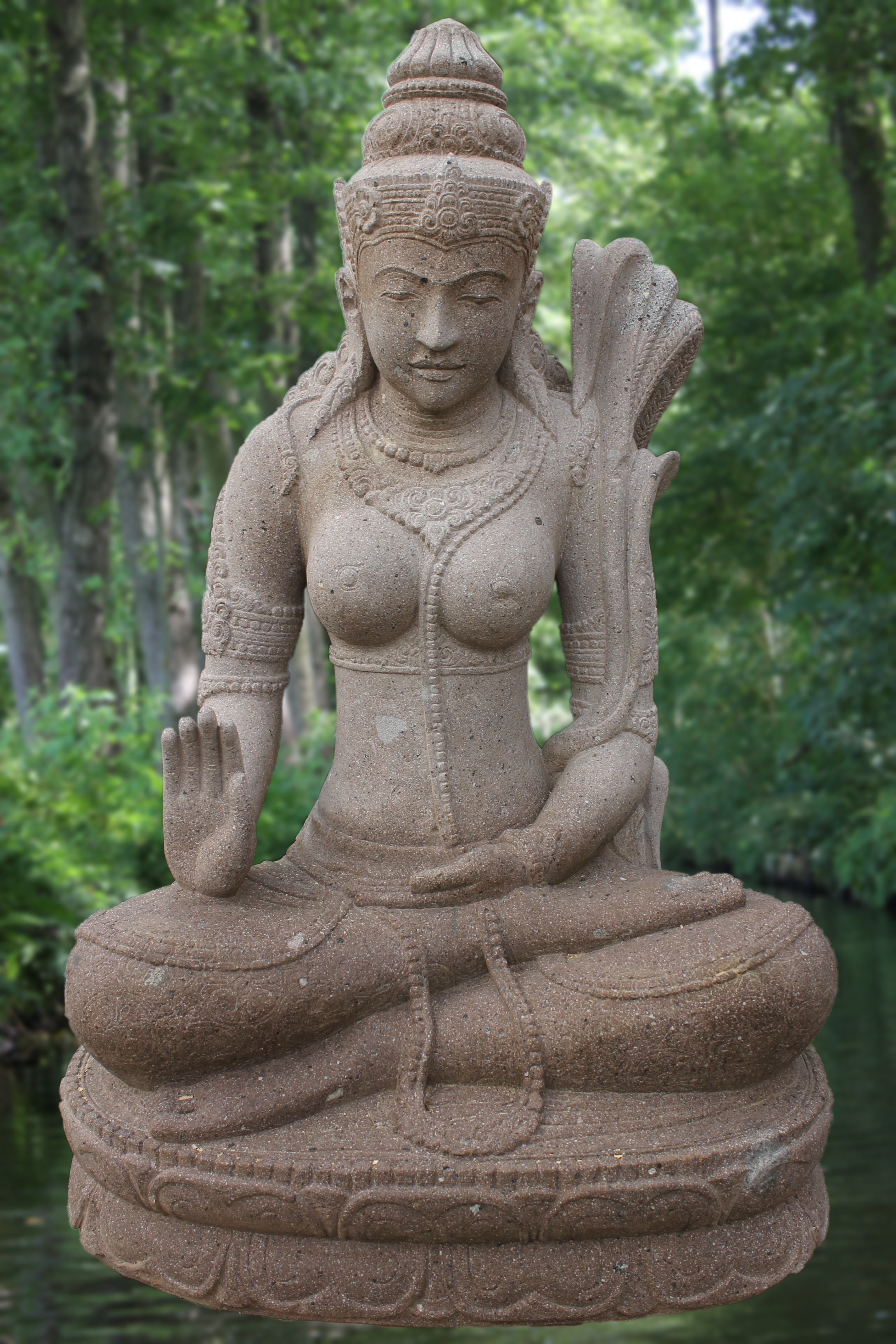 This is the stone figure of Dewi Sri Abhaya Mudra, an Indonesian rice goddess of fertility. The sculpture consists of the natural stone Rhyolih and was handcrafted in Java (Indonesia).